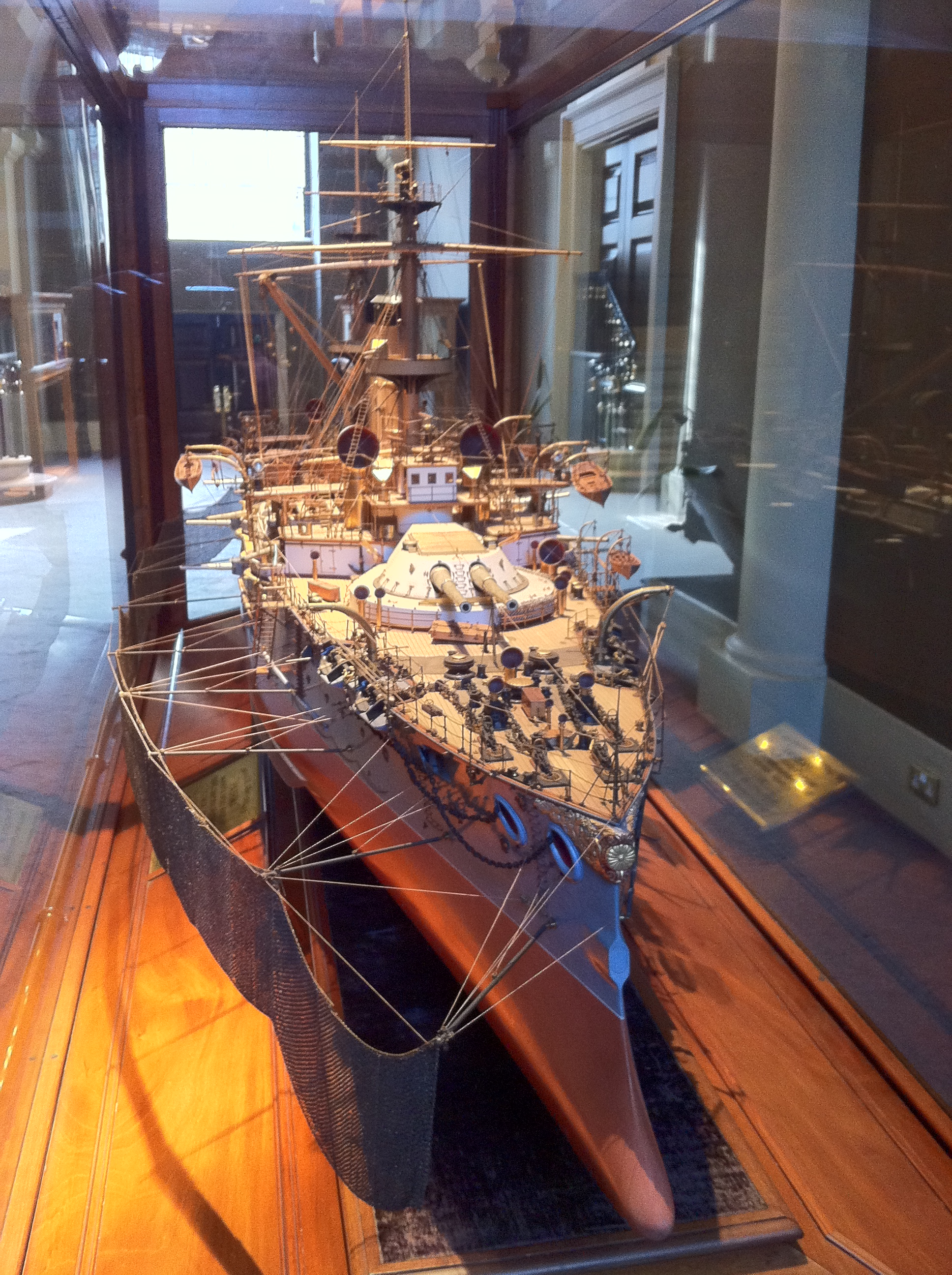 Model of the Fuji-class battleship Yashima (1897) built by Armstrong Whitworth in Newcastle. Scale 1:48